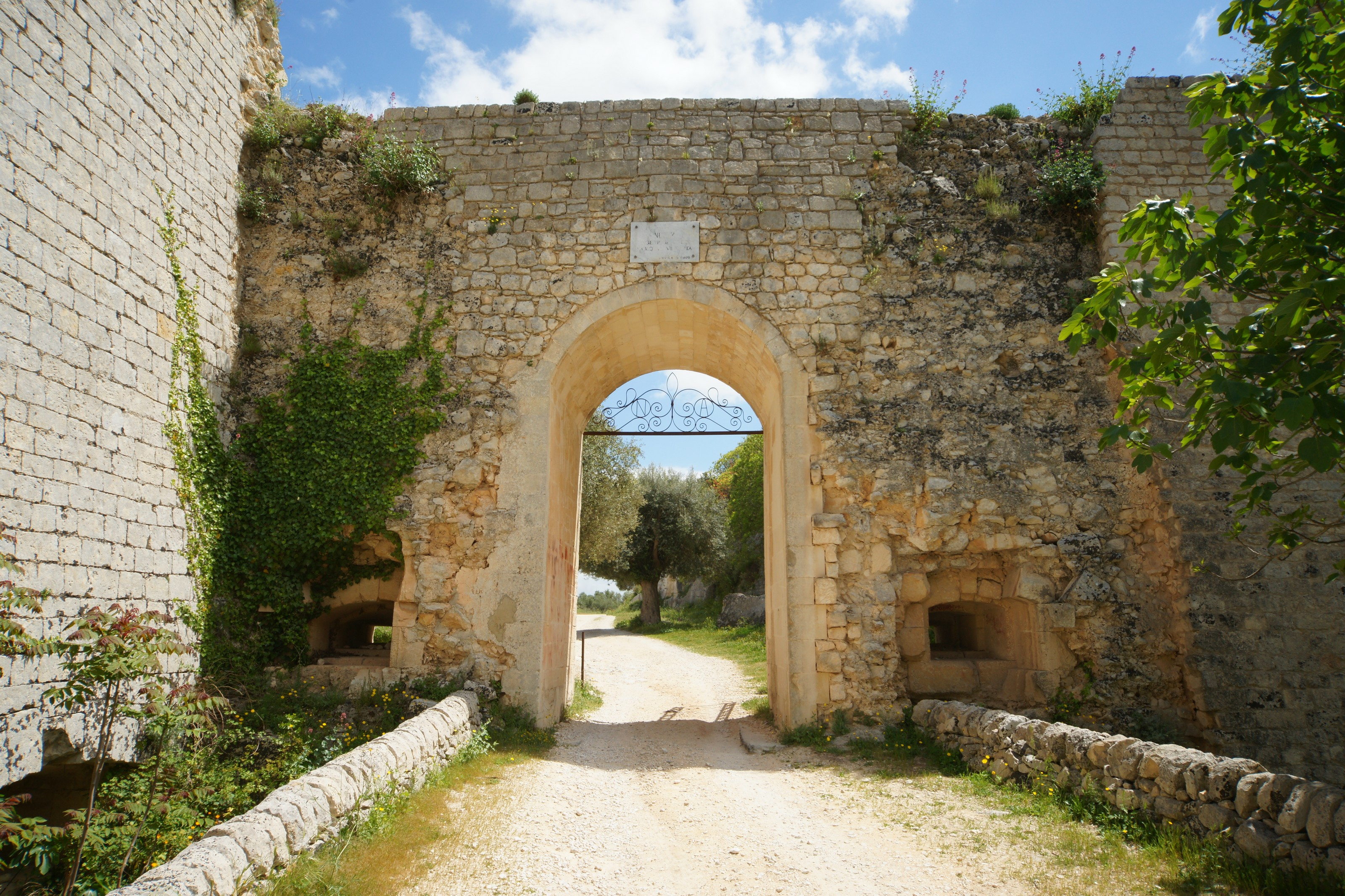 Noto Antica: Porta montagna